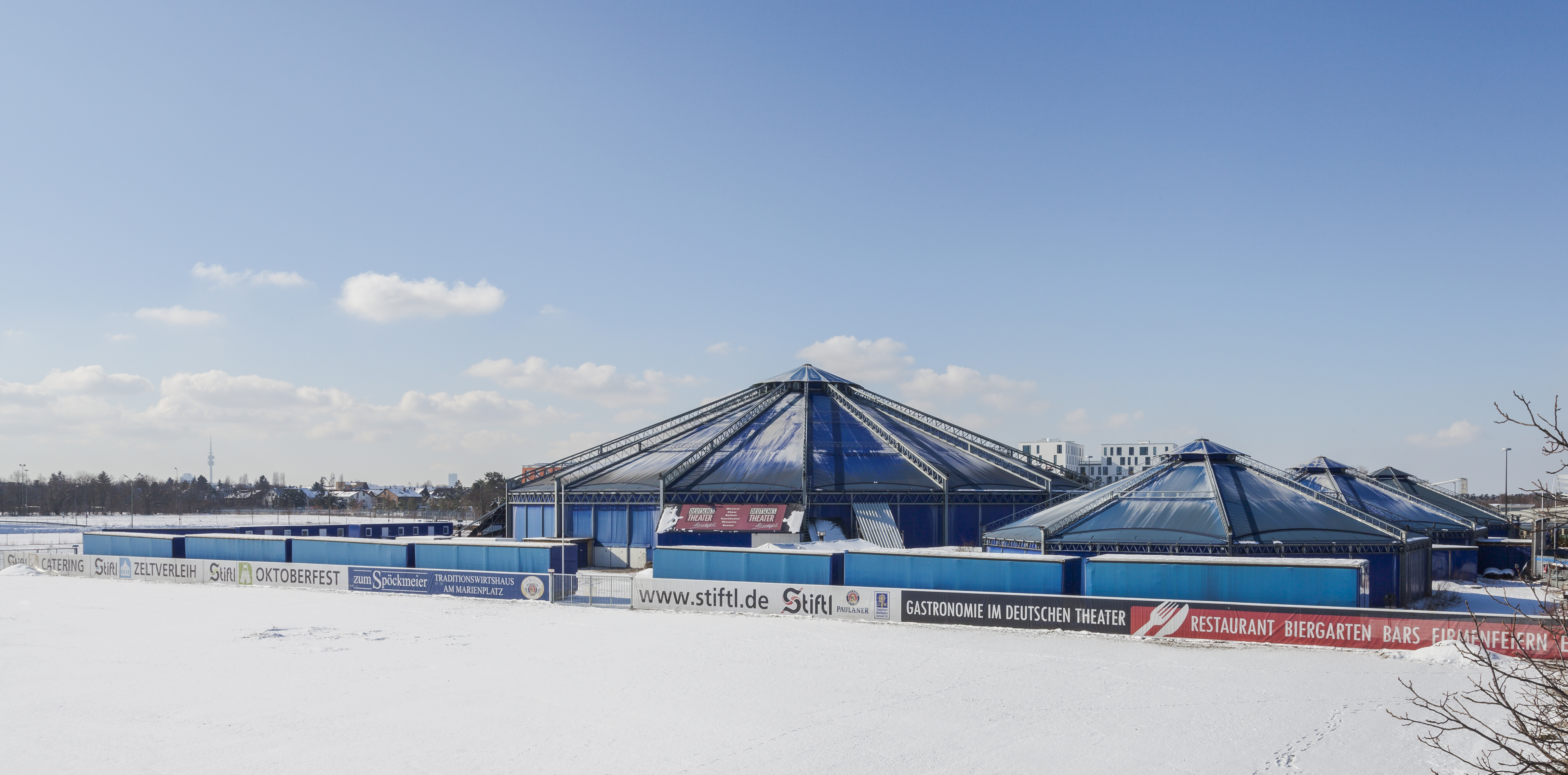 Architectural sculpture "Sunken Village" by Timm Ulrichs (replica of the Holy Cross Church), Munich, Germany